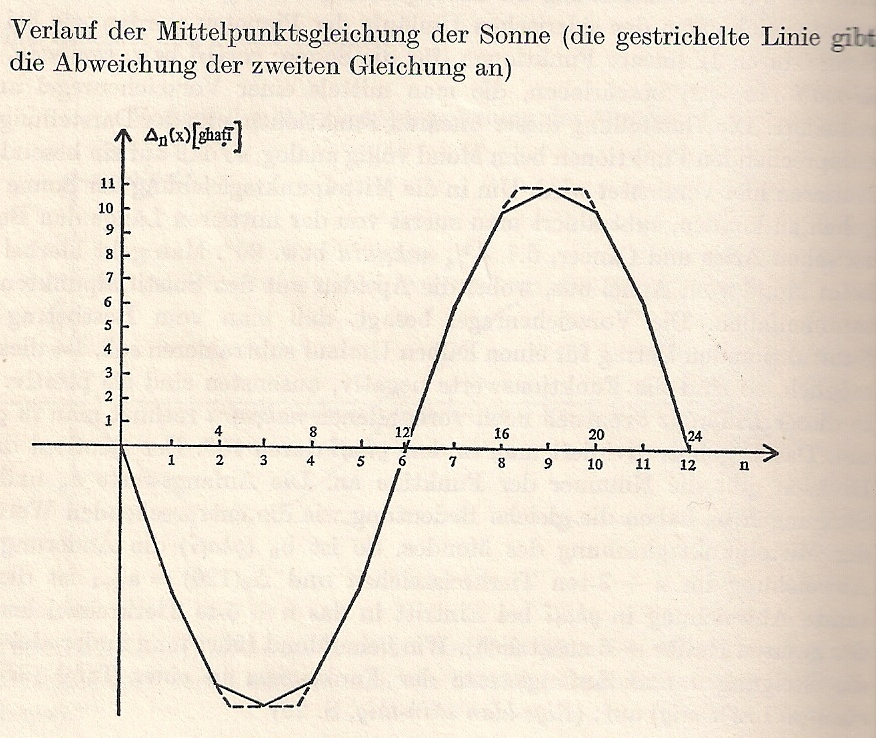 Graph of the Tibetan sun equation